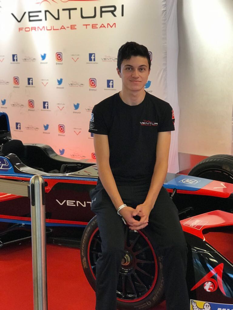 Monaco